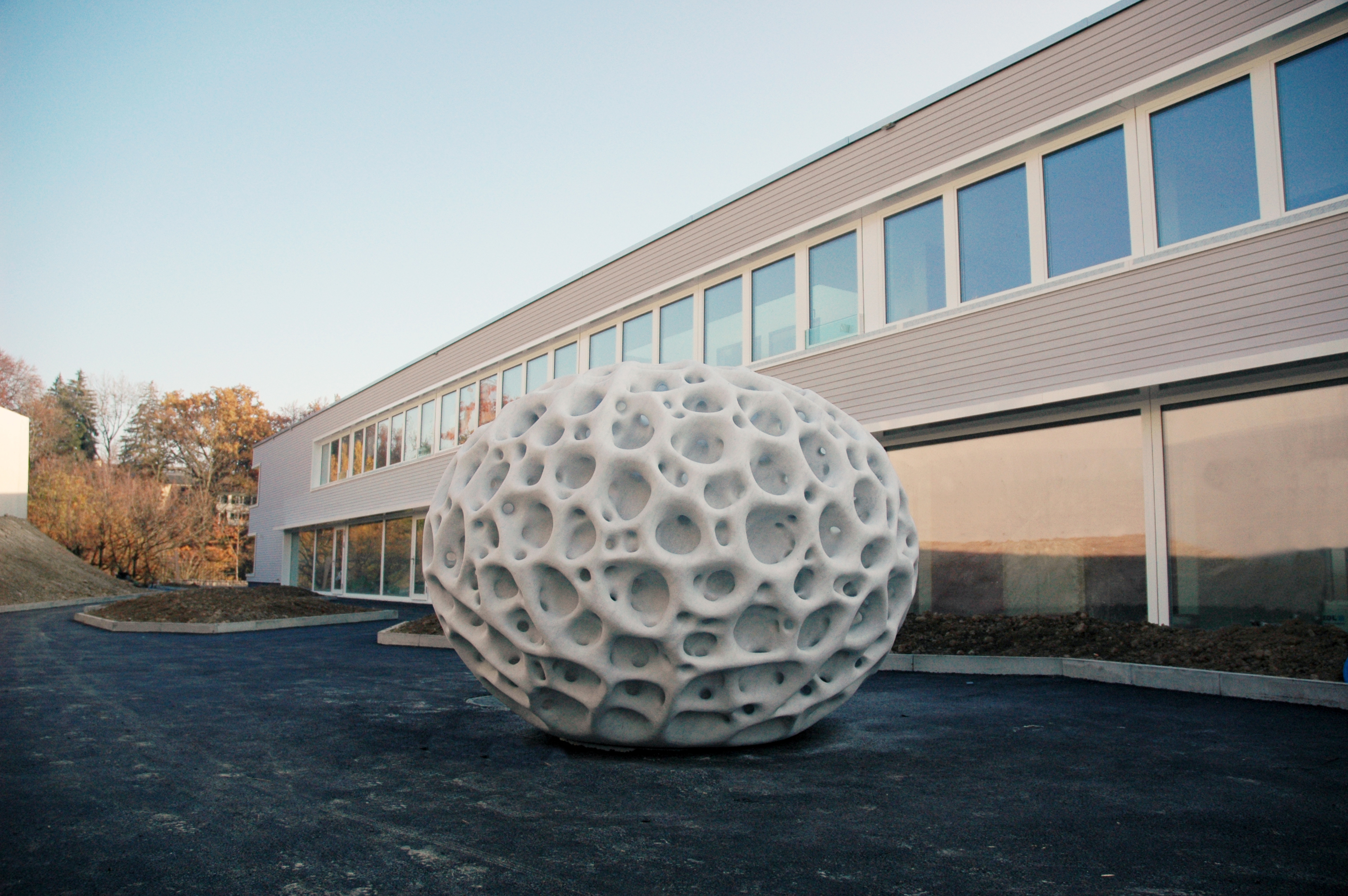 Large scale sculpture project in marble in Meilen/Zurich (Switzerland) by Swiss Artist Sibylle Pasche